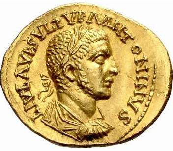 Uranius Antoninus, AV aureus. L IVL AVR SVLP VRA ANTONINVS, laureate, draped, cuirassed bust right.